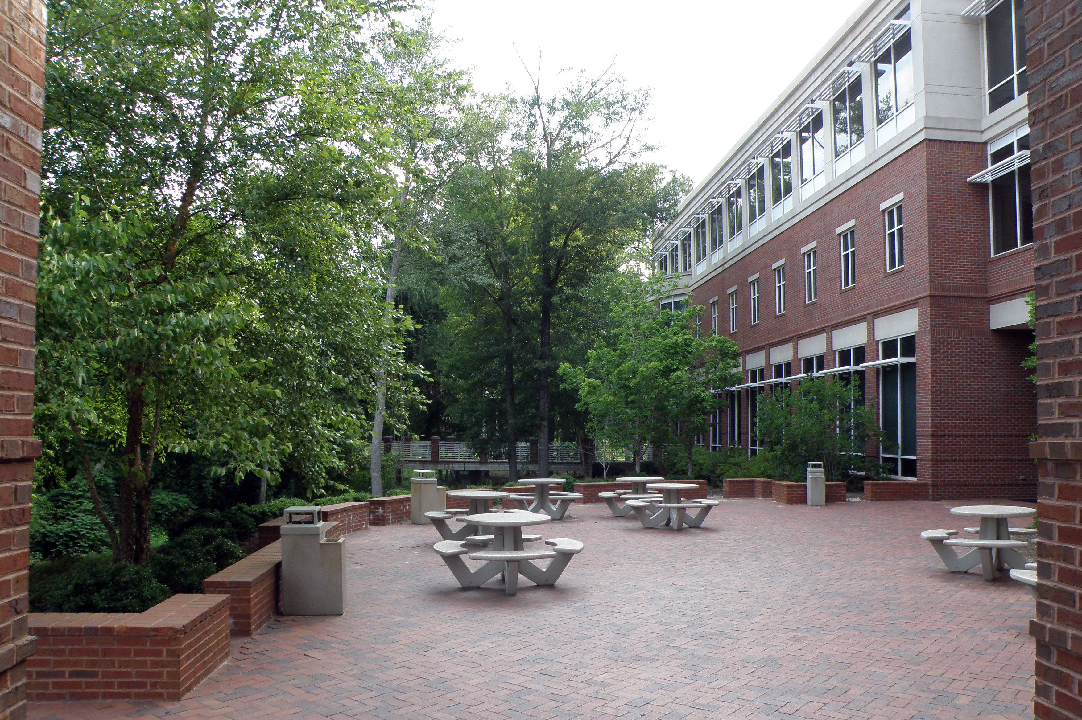 Coca Cola Plaza behind the College of Business Administration at Georgia Southern University in Statesboro, Georgia. The plaza is shaded and cool and the evening this photograph was taken there were several brown thrashers looking for food in shrubbery near by. Cardinals and mocking birds were singing in the cool evening air.